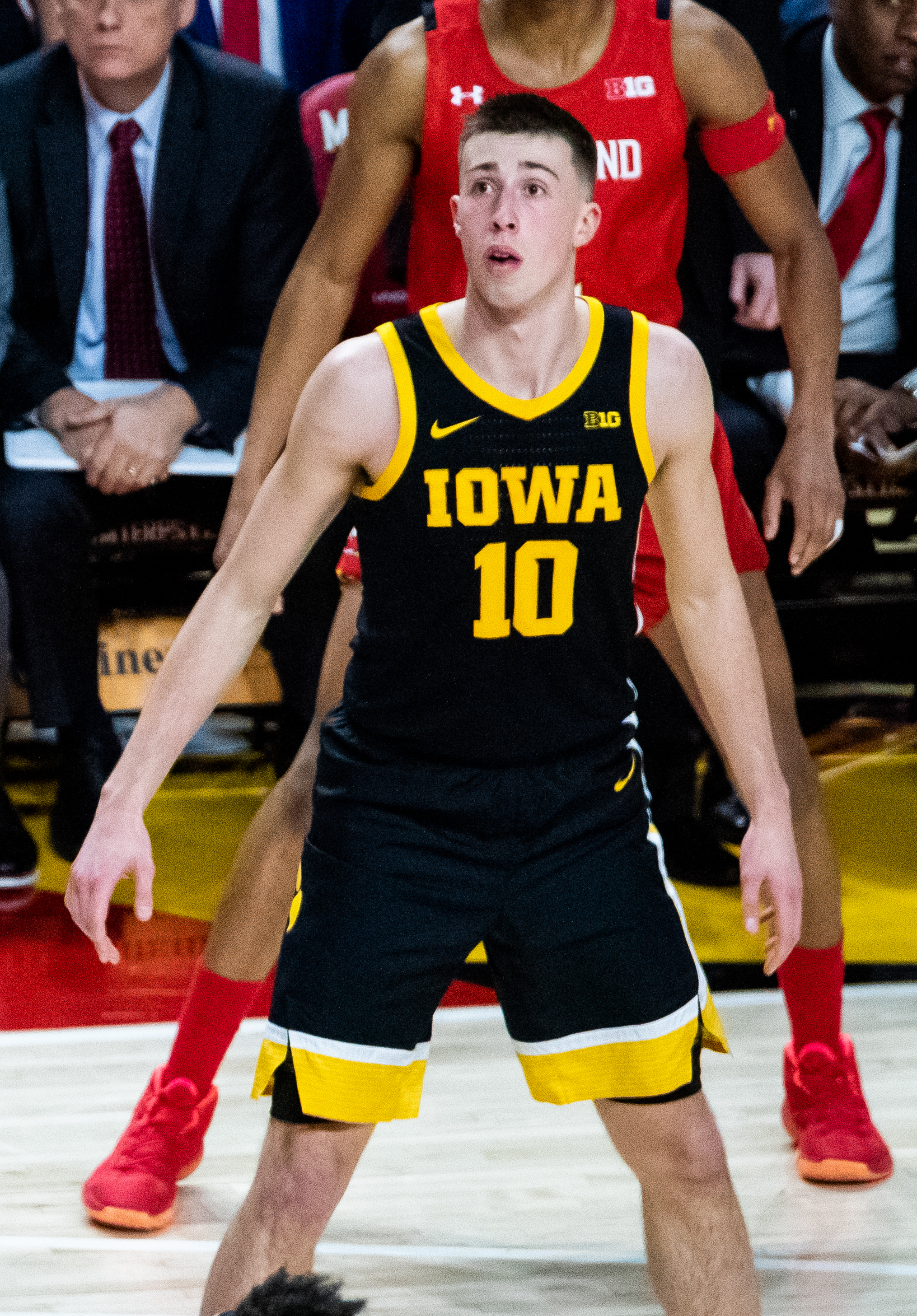 Maryland vs. Iowa